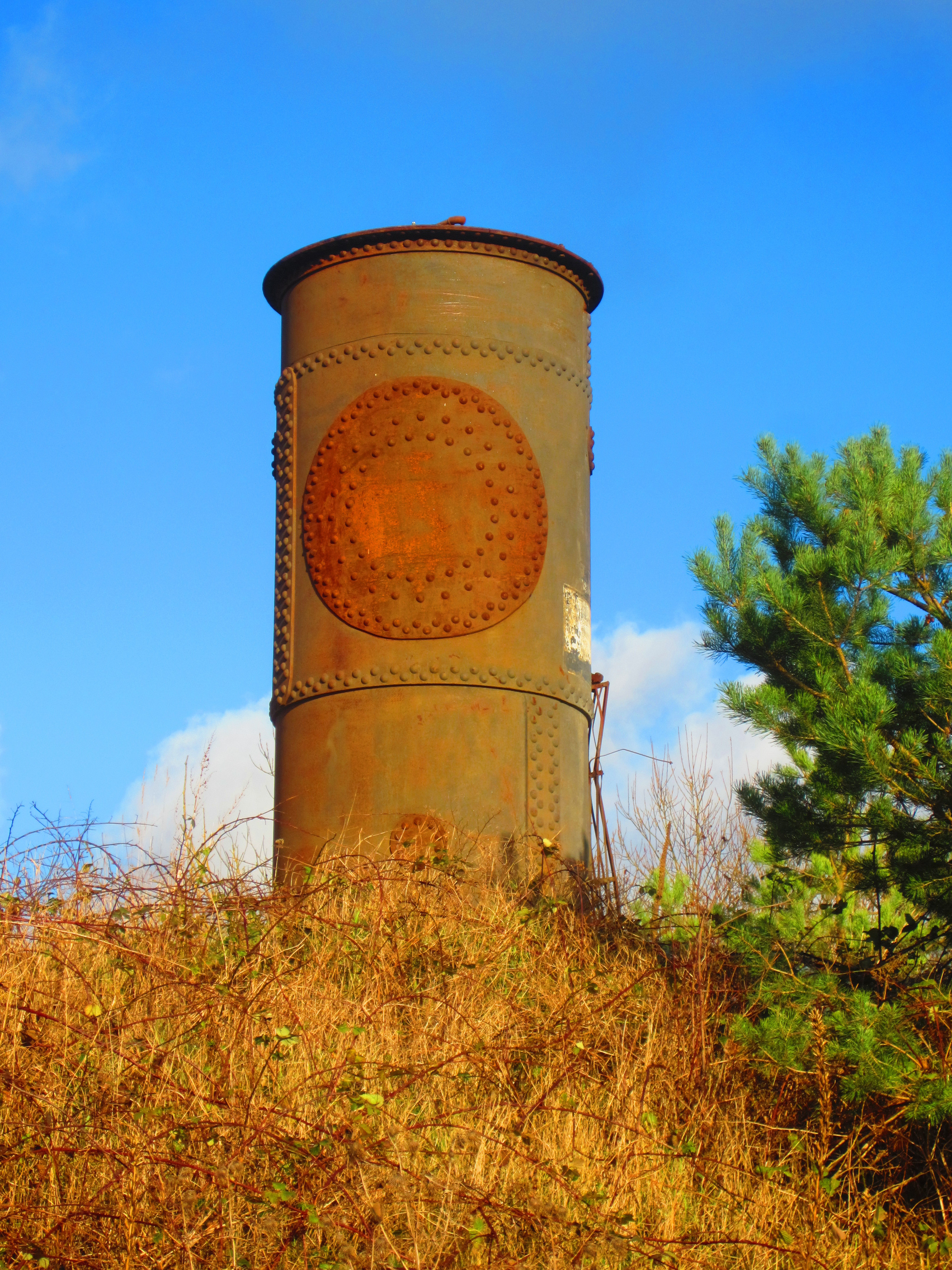 Cuve ancienne usine Moyeuvre